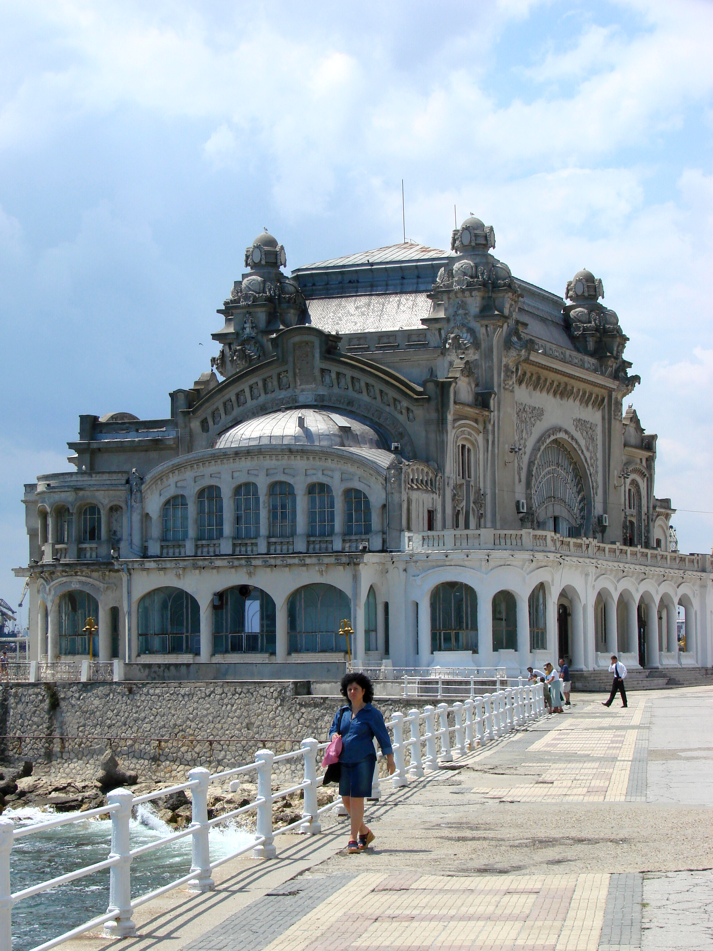 Art Nouveau Cazino complex, Constanta, Romania. June 2007.